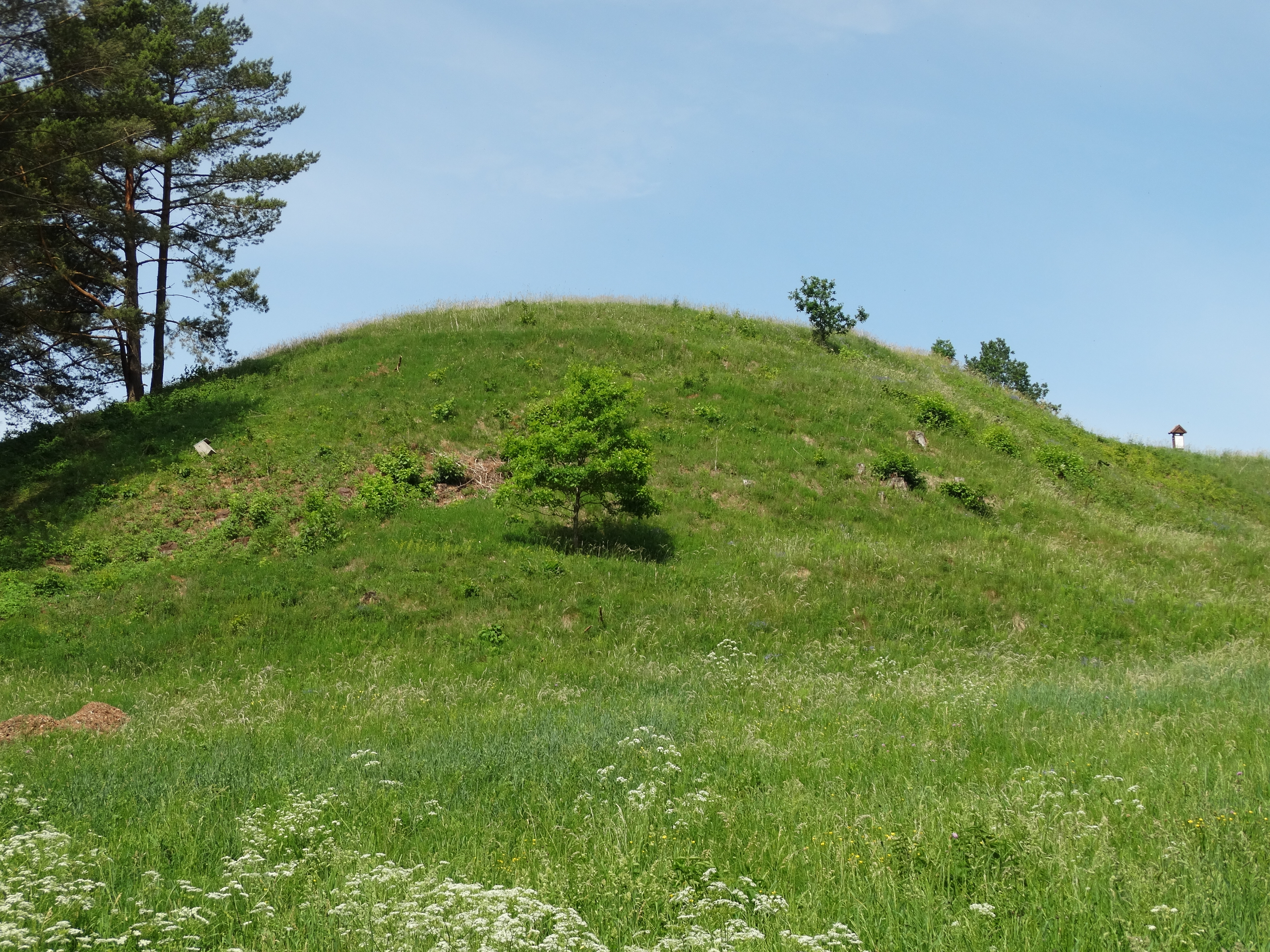 Betygala I hillfort, Raseiniai district, Lithuania